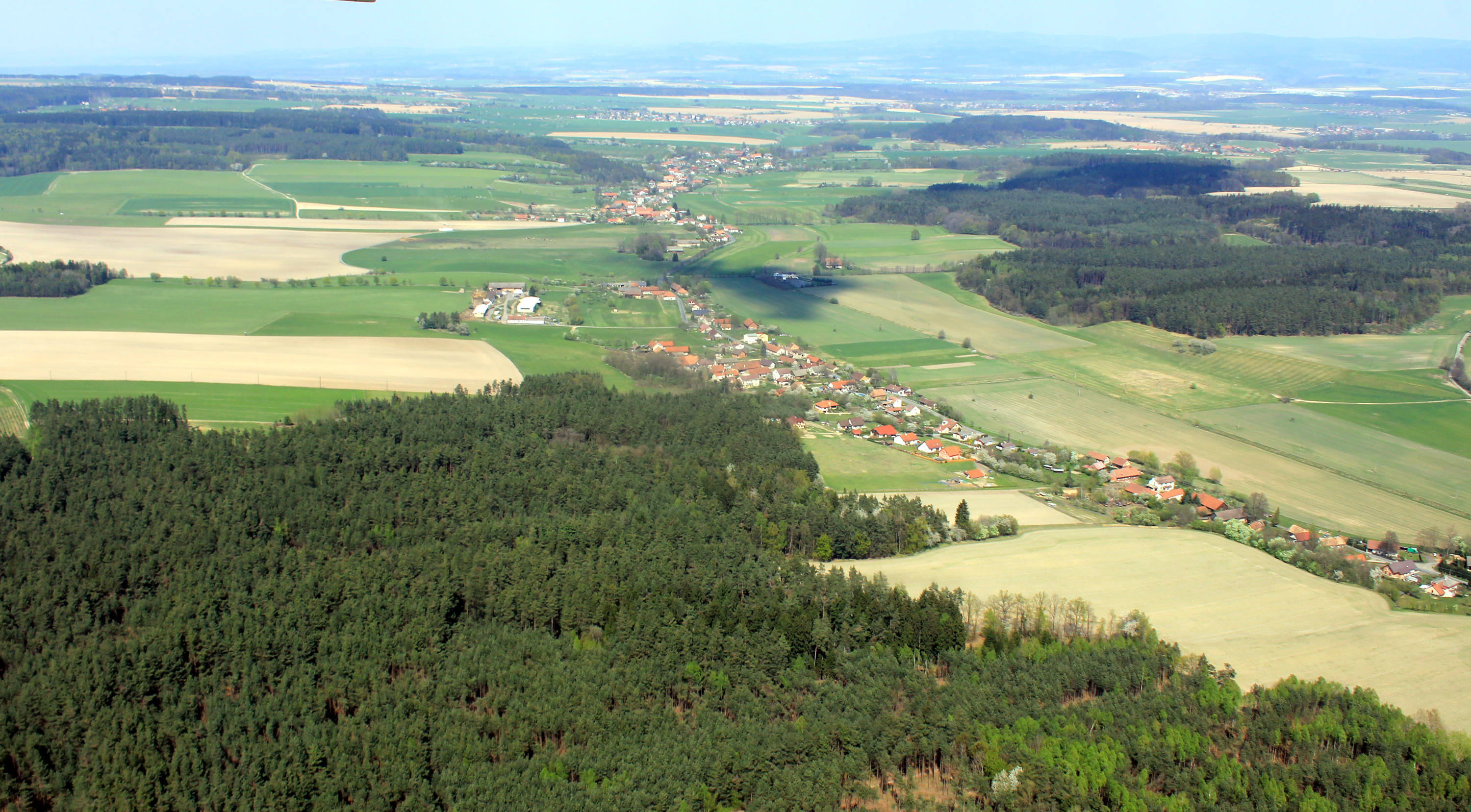 Village Olešnice in district of Rychnov nad Kněžnou from air, eastern Bohemia, Czech Republic